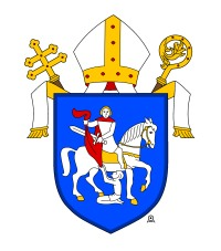 Coat of arms of Bratislava diocese